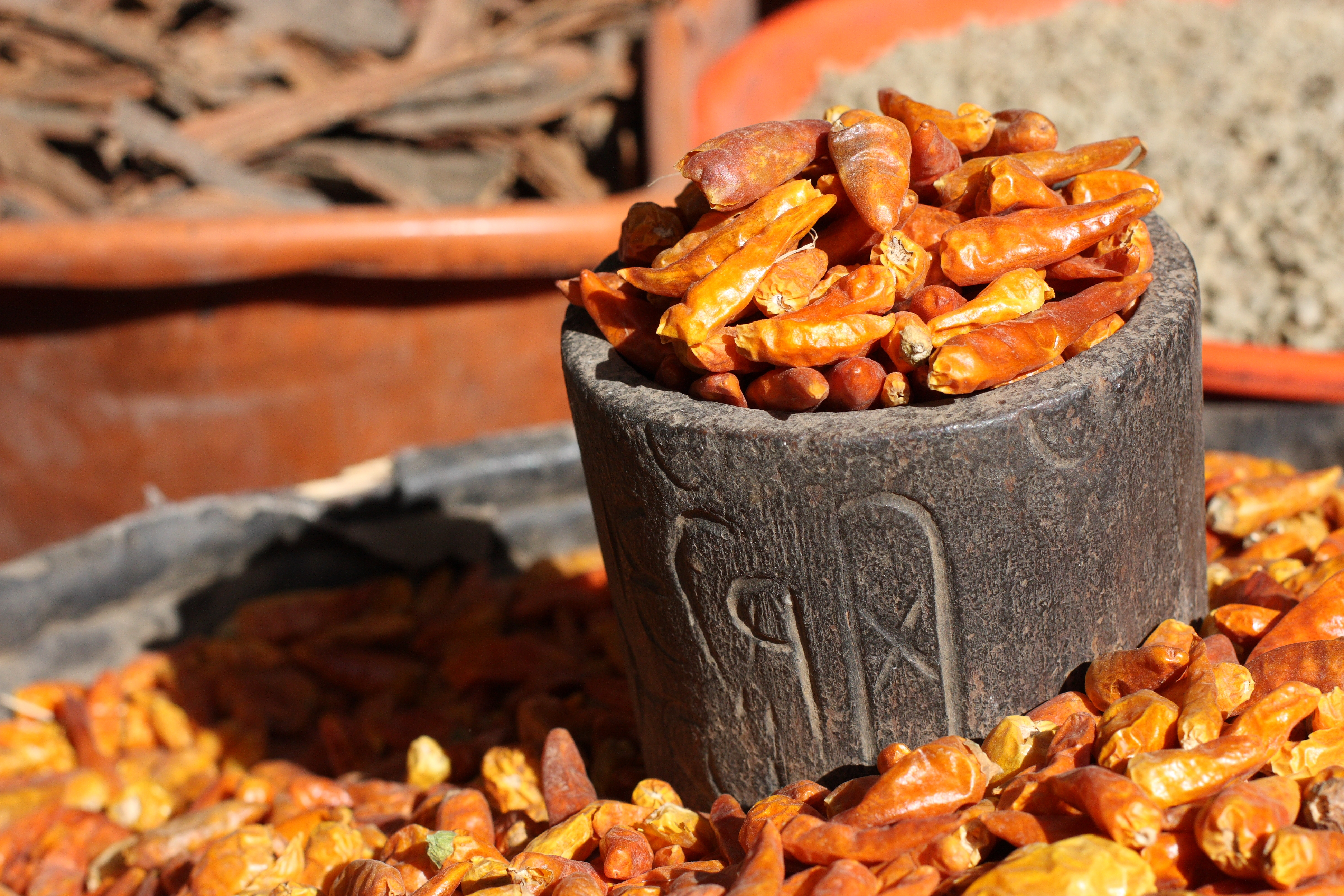 Cayenne pepper in Souk Al Milh, Sana'a, Yemen